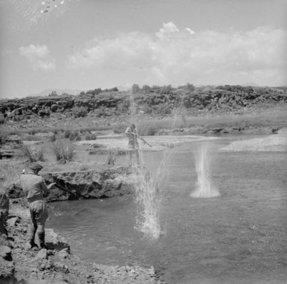 Soldiers trout fishing using rifles near Syrian Turkish border, World War II - Photograph taken by M D Elias. New Zealand. Department of Internal Affairs. War History Branch :Photographs relating to World War 1914-1918, World War 1939-1945, occupation of Japan, Korean War, and Malayan Emergency. Ref: DA-02539-F. Alexander Turnbull Library, Wellington, New Zealand. M. D. Elias was an official photographer of the NZ Military Forces and thus copyright in this work rests or rested with the Crown. The Crown has released this work under the CC-BY 3.0 unported license. Refer to source website for details: This work's copyright expired 50 years after creation in New Zealand and probably also in countries following the rule of the shorter term.